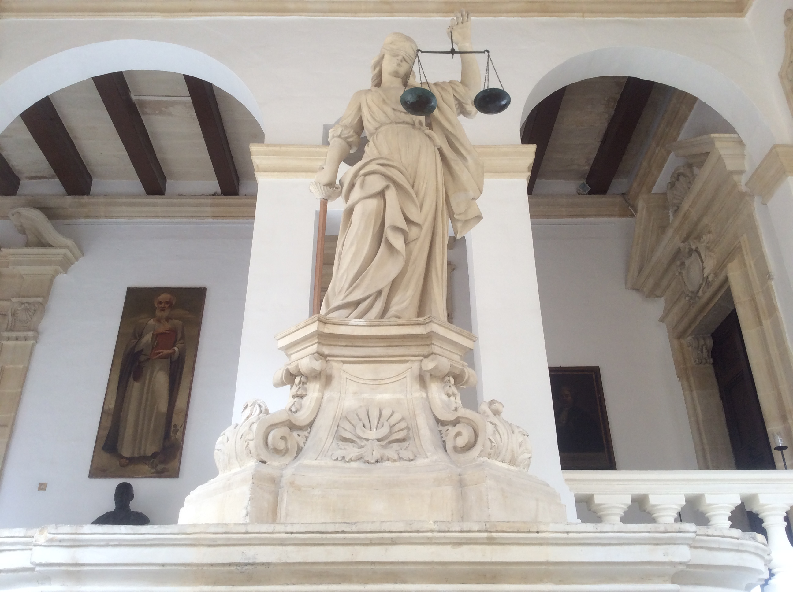 Statue of Justice at the Castellania in Valletta, Malta